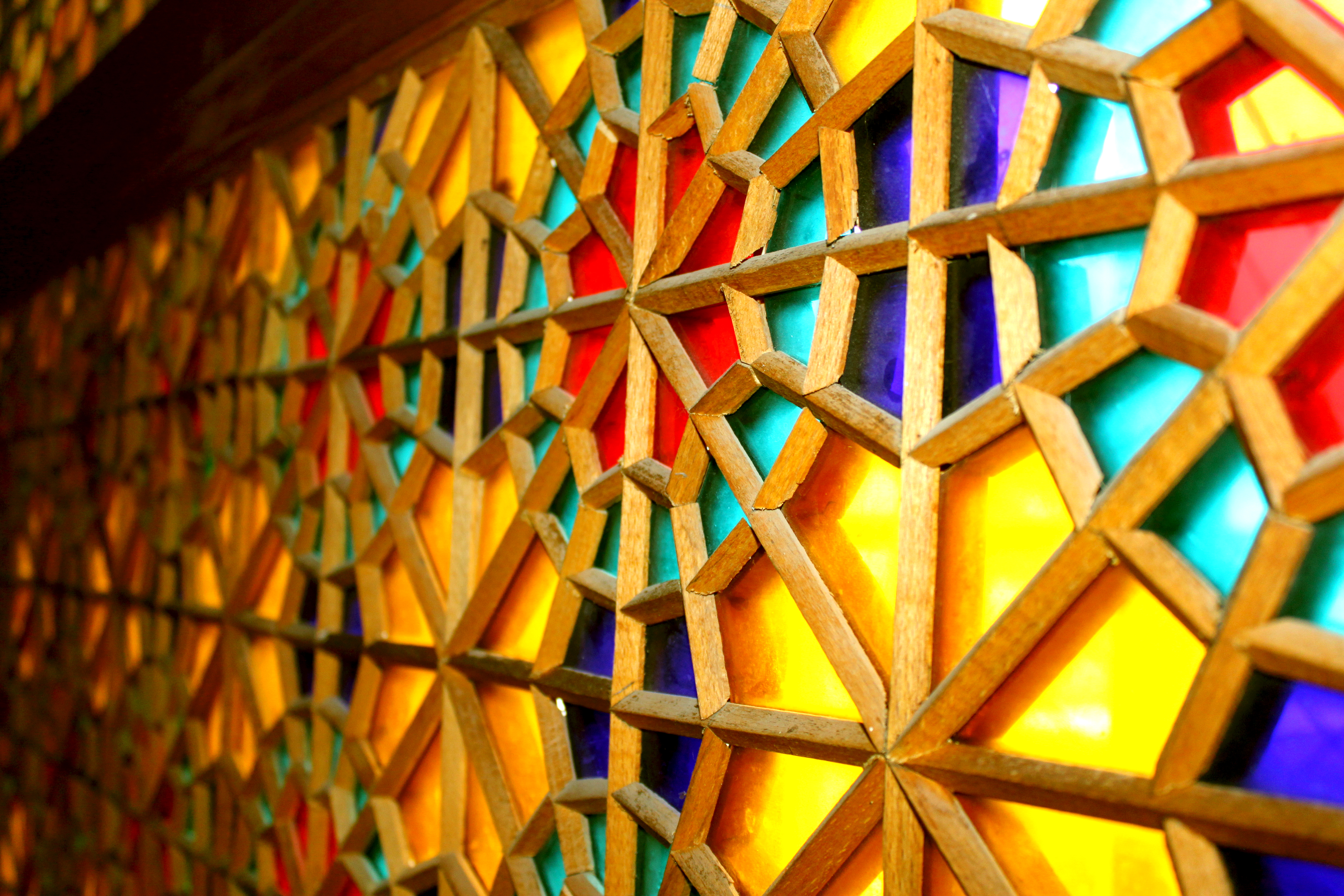 Khan's Palace of Shaki shabaka